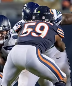 Danny Trevathan in 2018